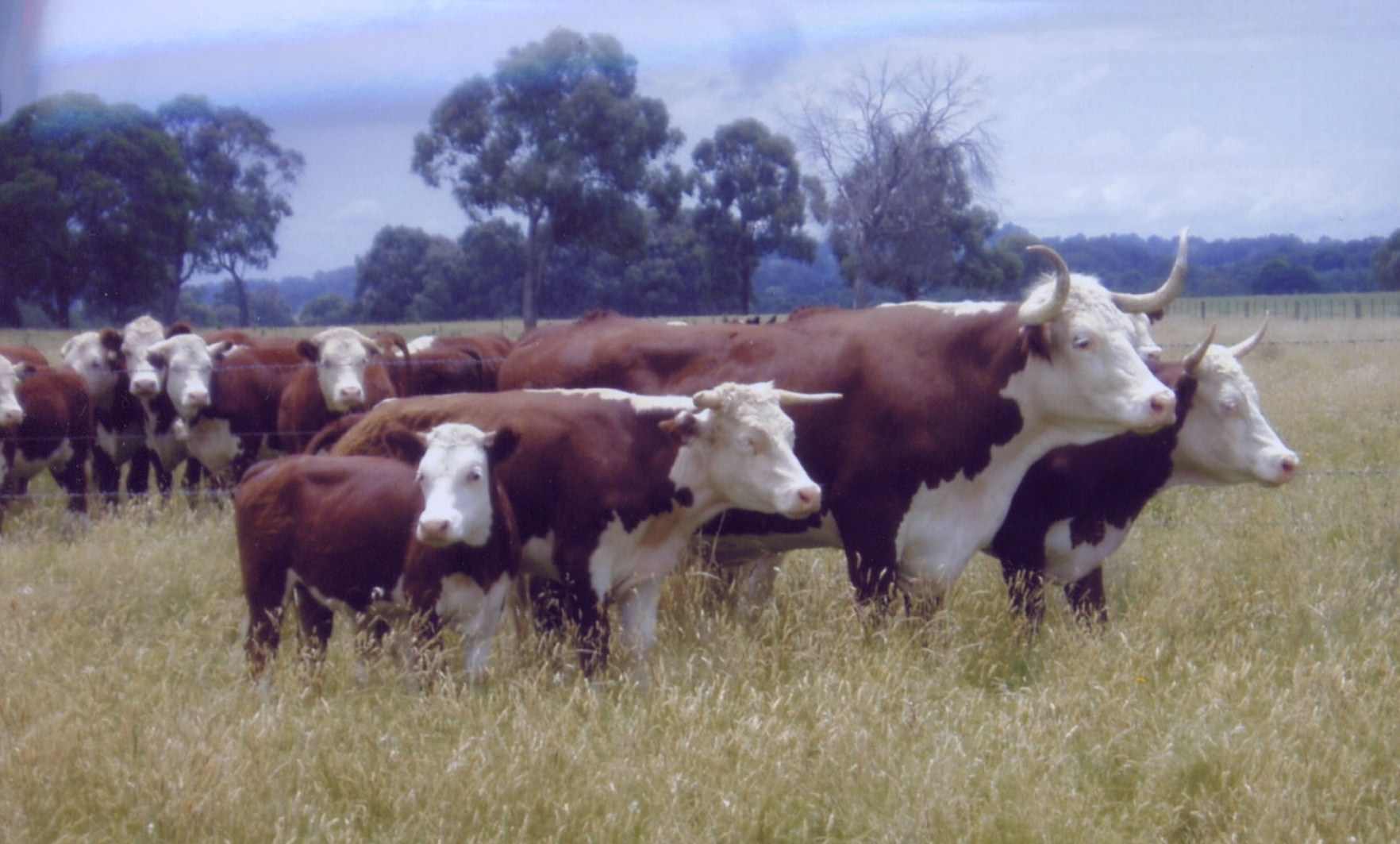 The large piker bullock that had roamed free in the mountains of the Northern Tablelands until he was mustered.